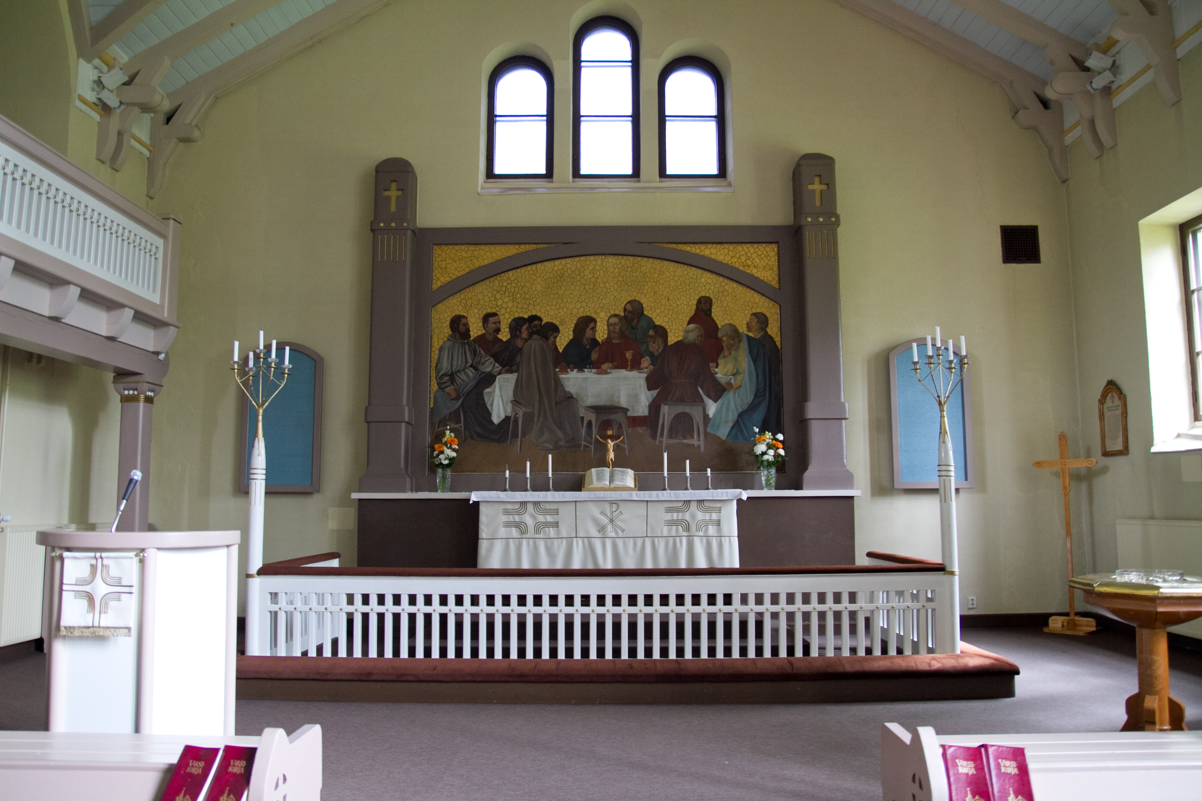 Interior of Vuolijoki Church